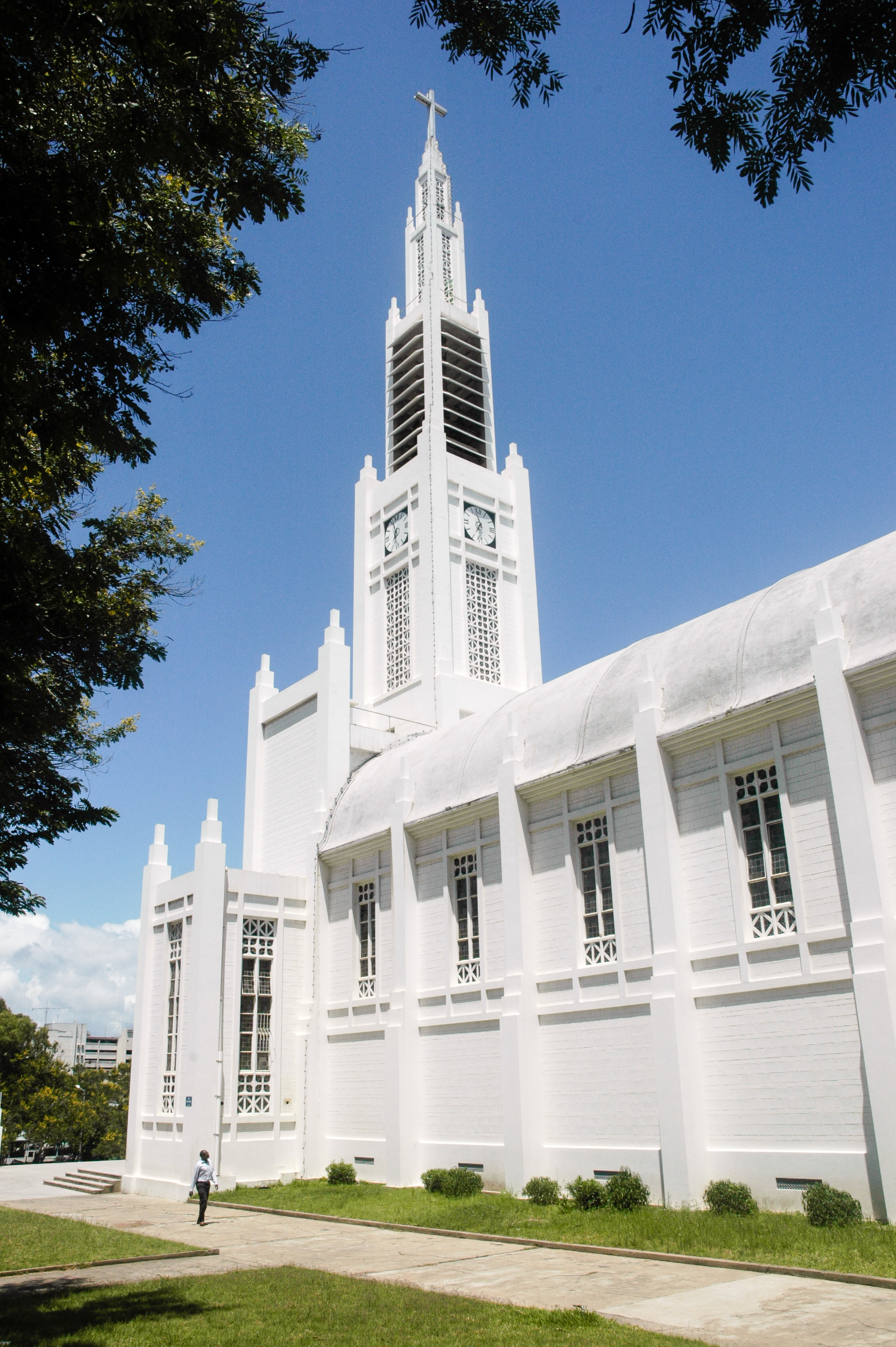 Cathedral of Our Lady of the Immaculate Conception